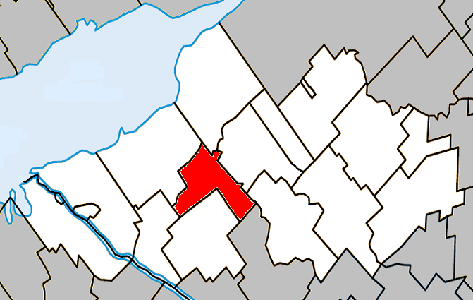 Location of La Visitation-de-Yamaska, Quebec within Nicolet-Yamaska Regional County Municipality.